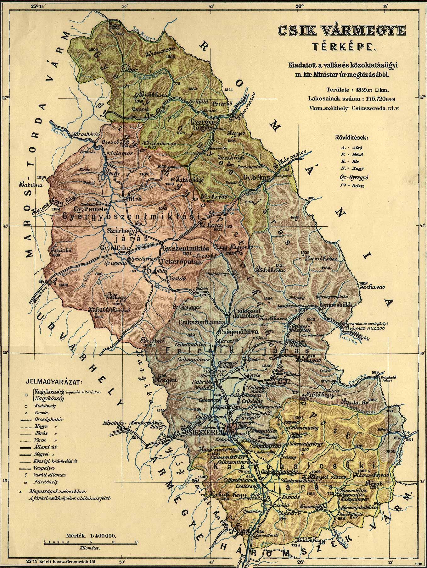 Administrative map of the county of Csík in the Kingdom of Hungary